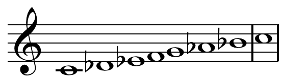 Phrygian mode on C. Created by Hyacinth (talk) 19:40, 31 July 2008 in Sibelius.